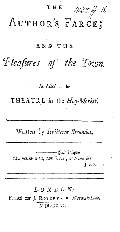 Fielding, Henry. The author's farce; and The pleasures of the town. As acted at the theatre in the Hay-Market. Written by Scriblerus Secundus. London: Printed for J. Robers, 1730.